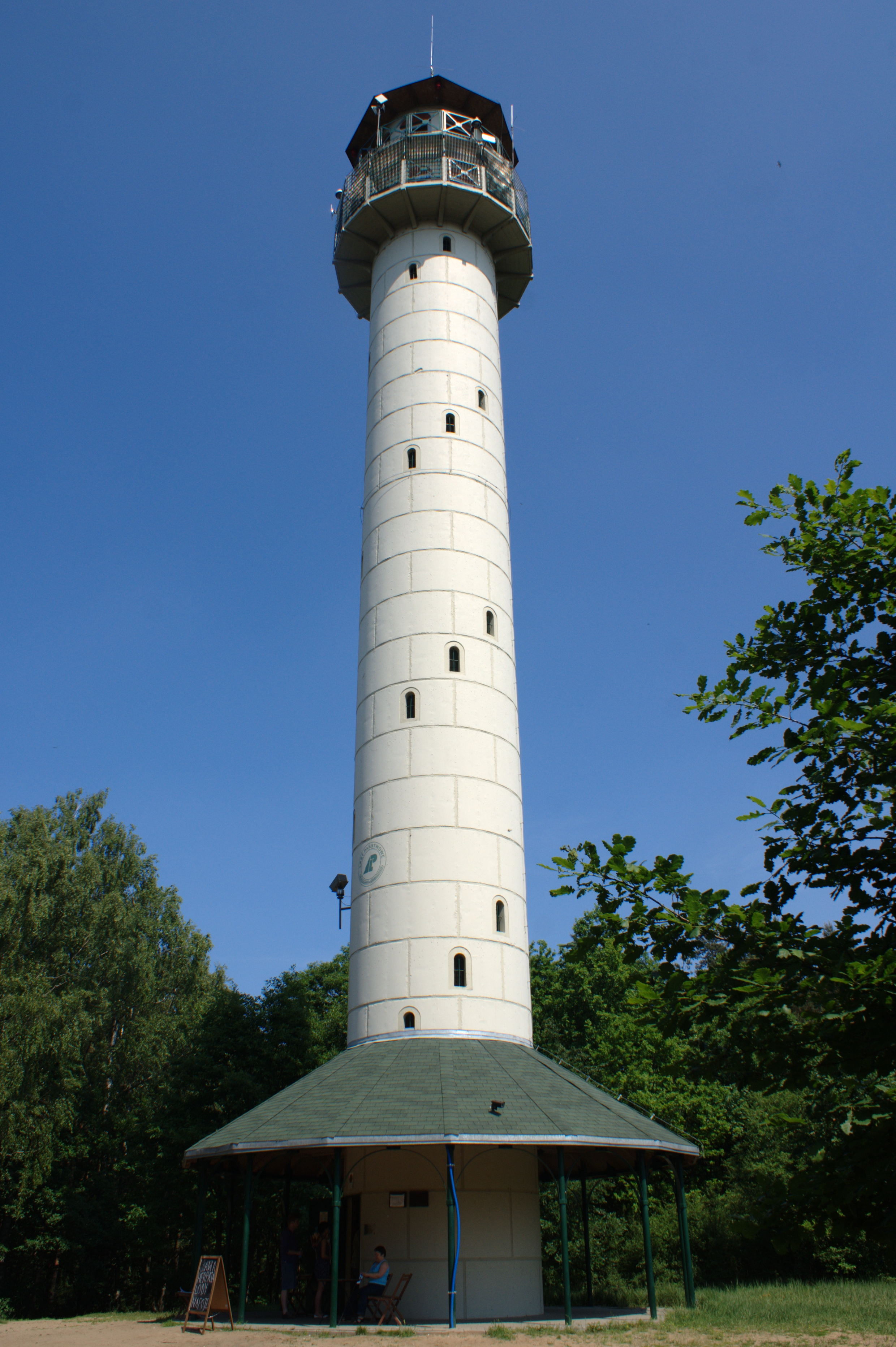 Observation tower on Dziewicza Góra